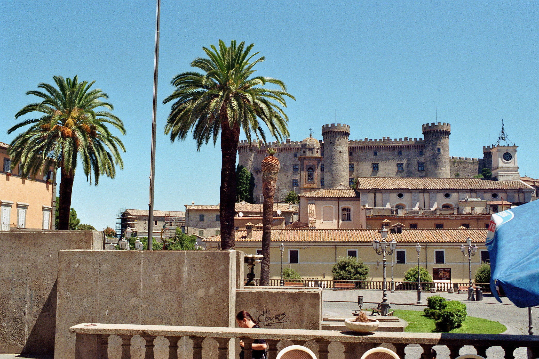 Bracciano, view of castle over town hall square